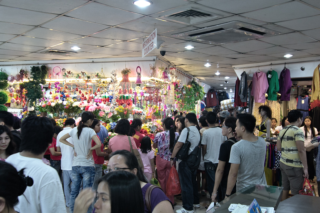 The sights of the inside of 168 Mall in Divisoria at any given weekend.